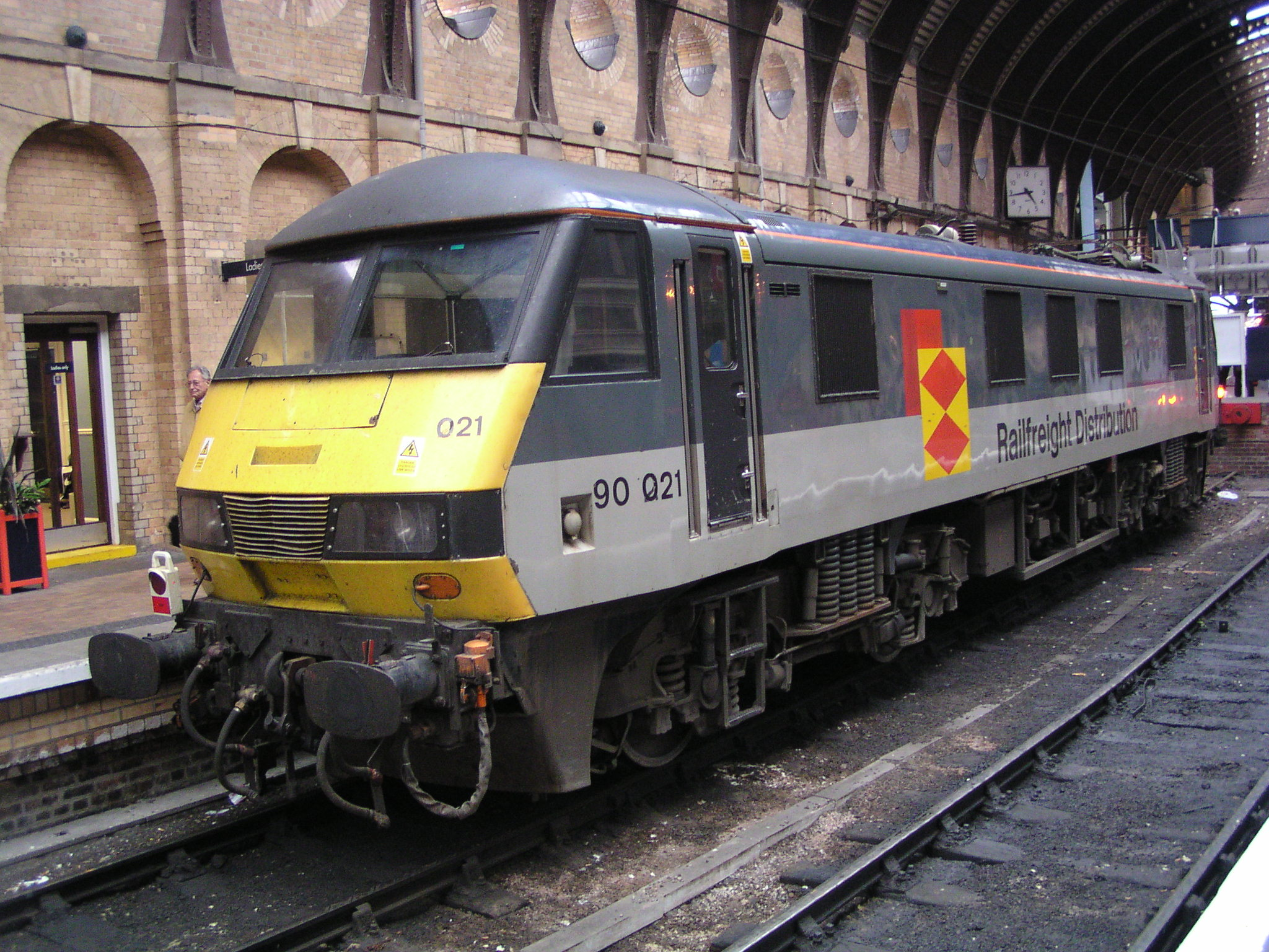 BR Class 90/0, no. 90021 at York station on 3rd June 2004. This locomotive is owned by EWS and retains revised Railfreight Distribution livery.